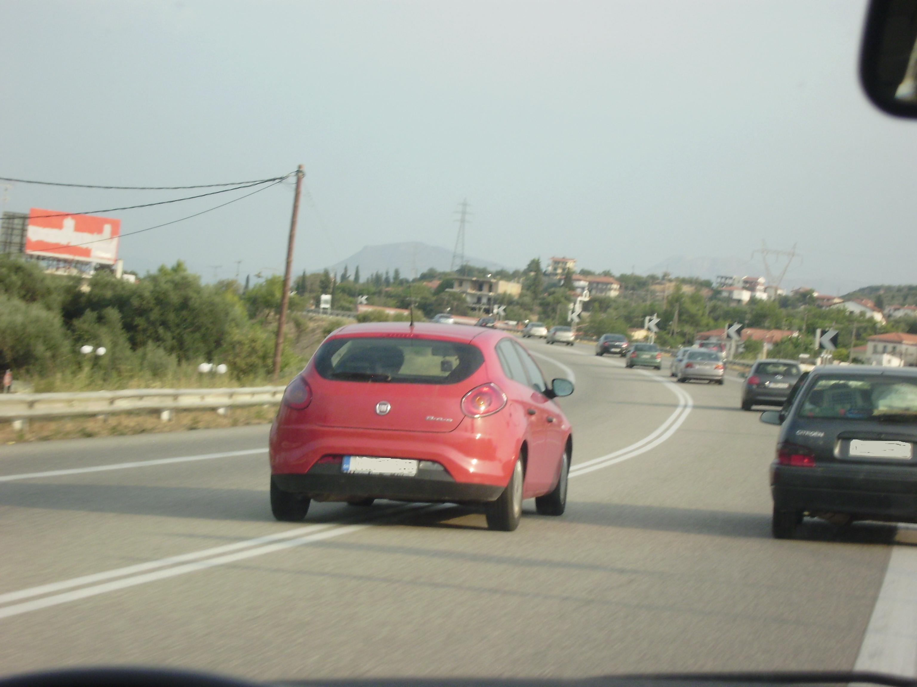 GR-A8